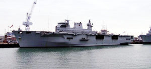 HMS Ocean (L12) in Portsmouth Harbour on 28th March 2004